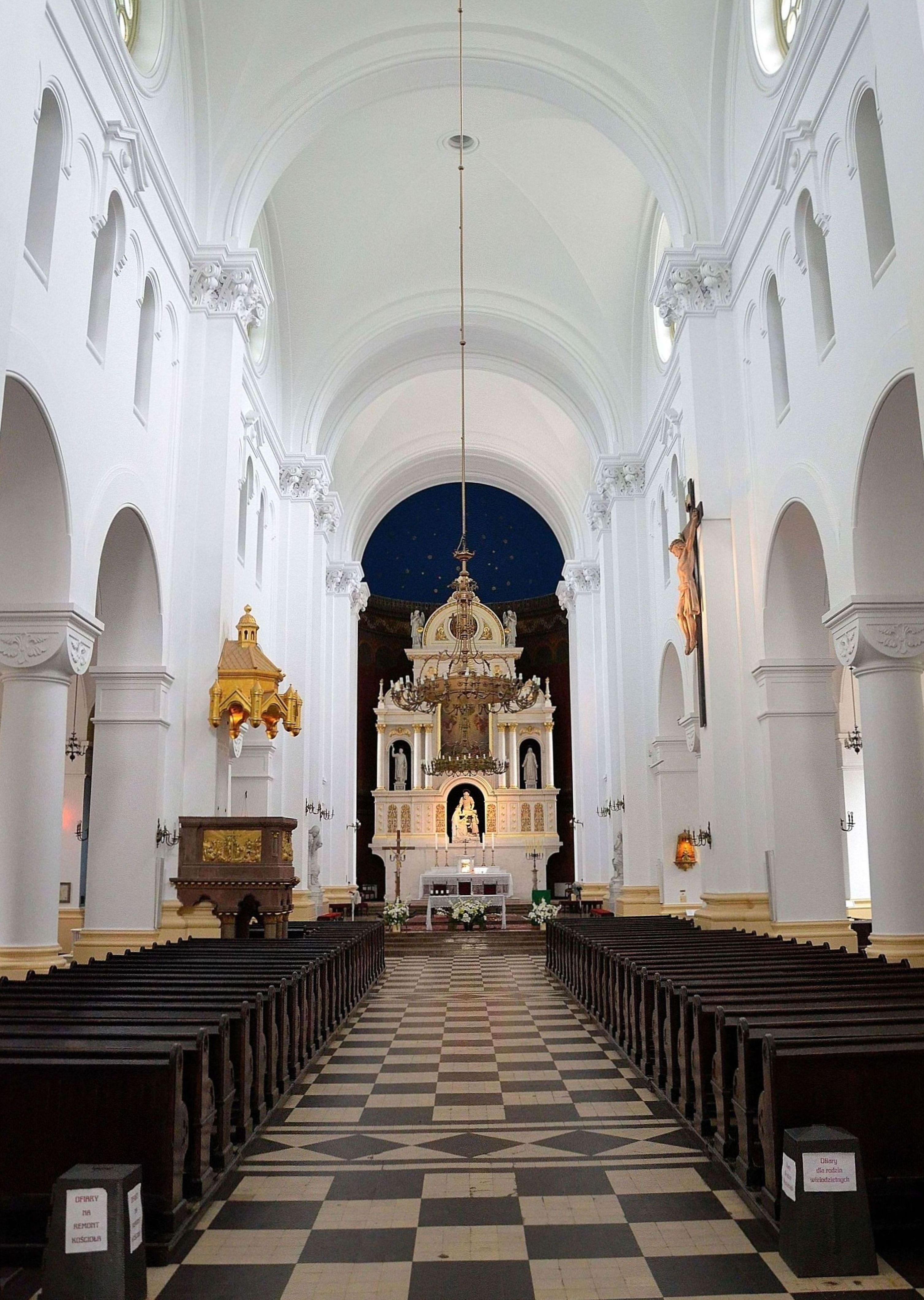 Interior of the Saint Augustine Church in Warsaw (listed in the Register of Historic Monuments on 1.07.1965, reference no. 18 717)